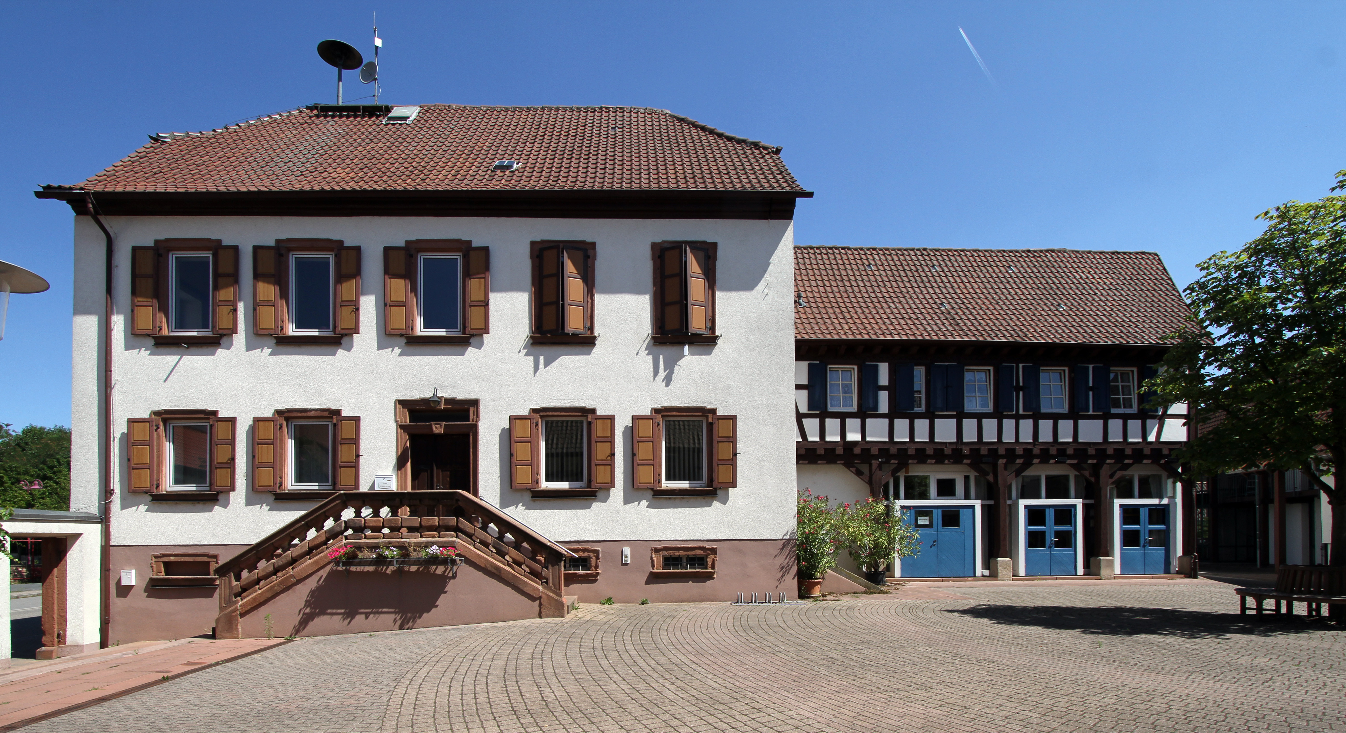 Cultural heritage monument in Steinweiler (Pfalz).